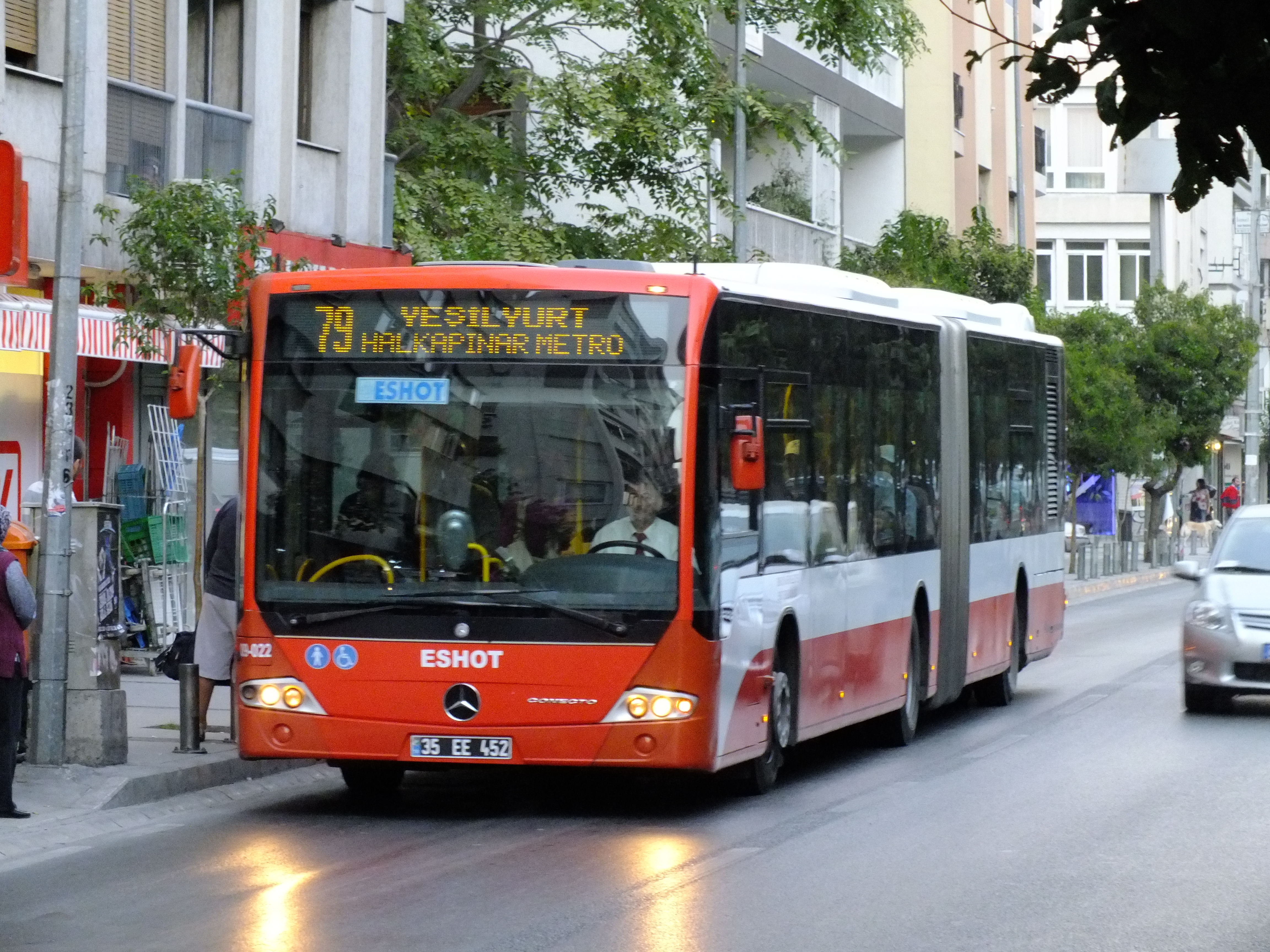 AN ESHOT Mercedes Connecto bus on Sair Esref Boulevard.